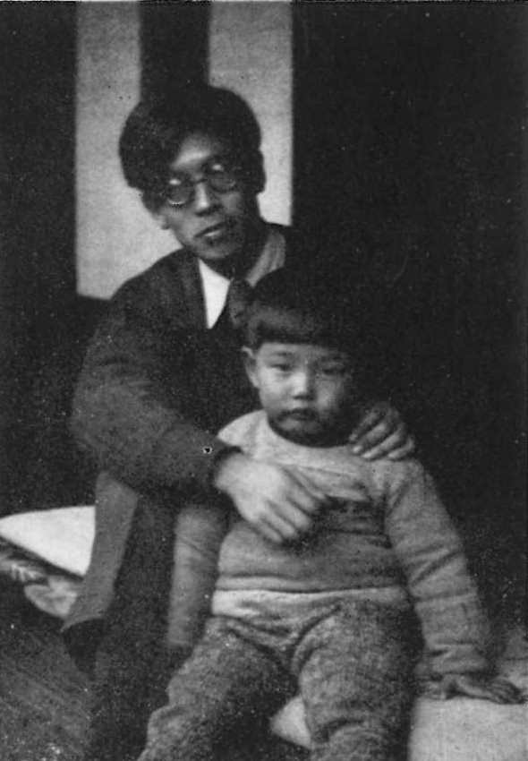 Atsushi Nakajima and his son